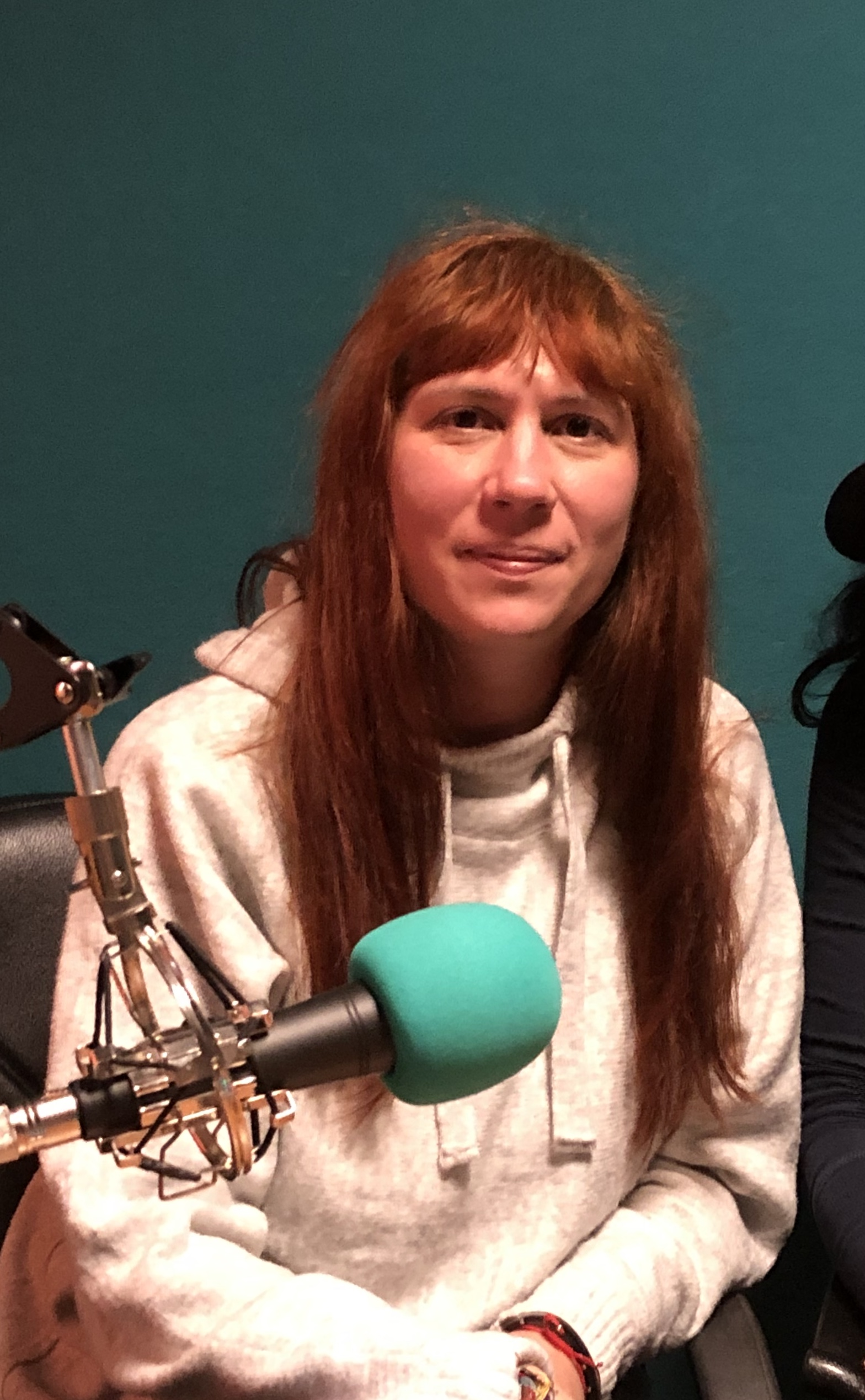 Veselka Kuncheva director